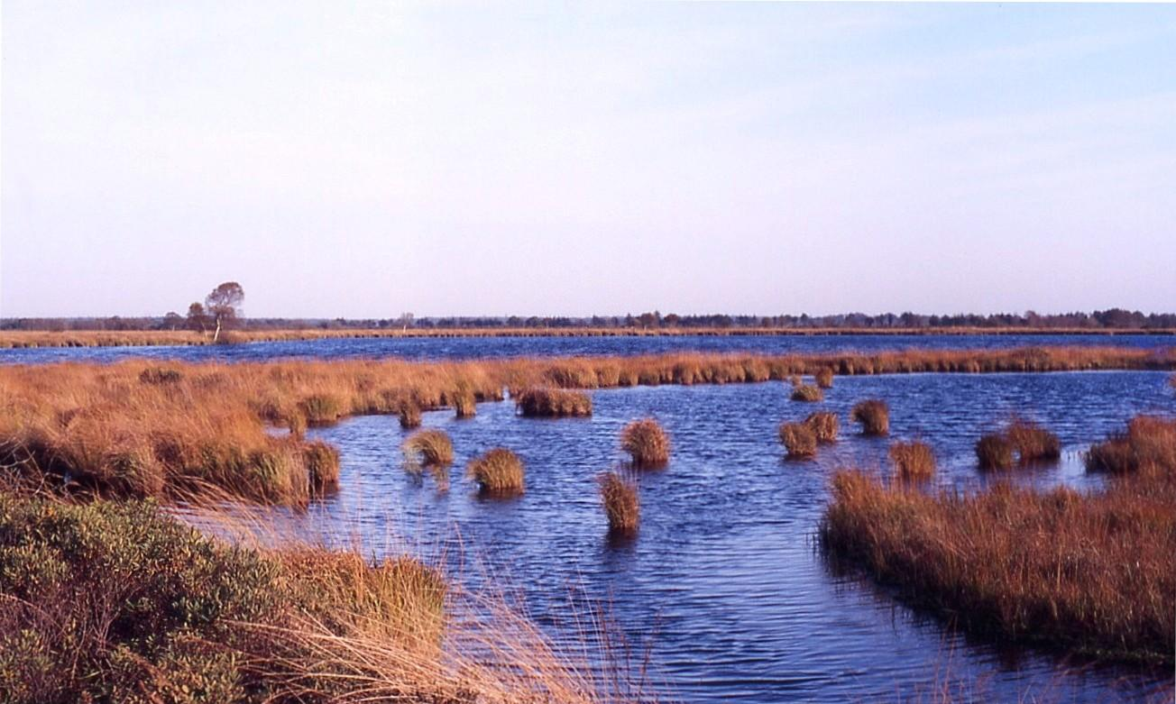 The "Dobbe" in the "Ewiges Meer und Umgebung" nature reserve ("Eternal lake"), a big moor lake in East Frisia, NW Germany.